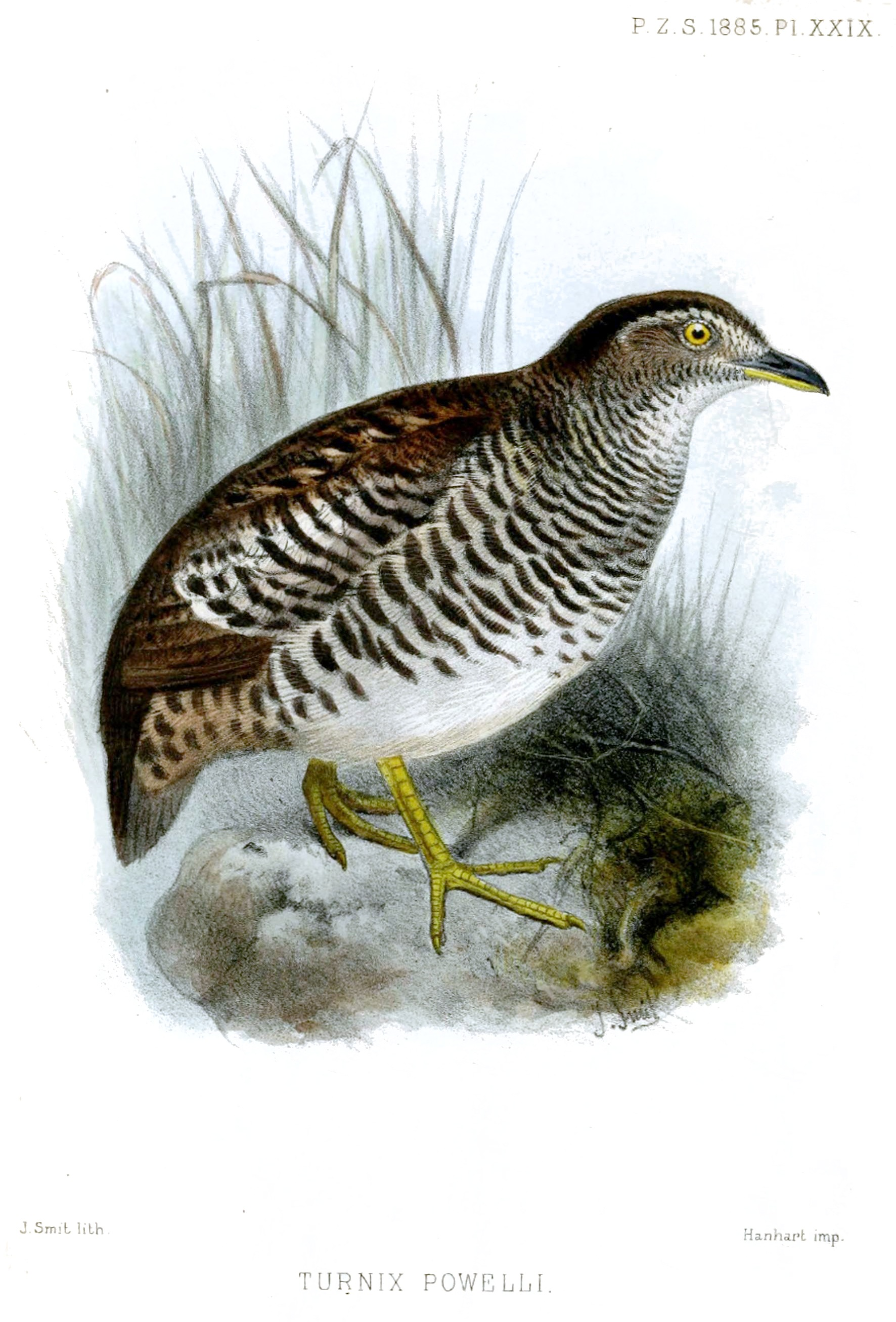 Turnix suscitator powelli